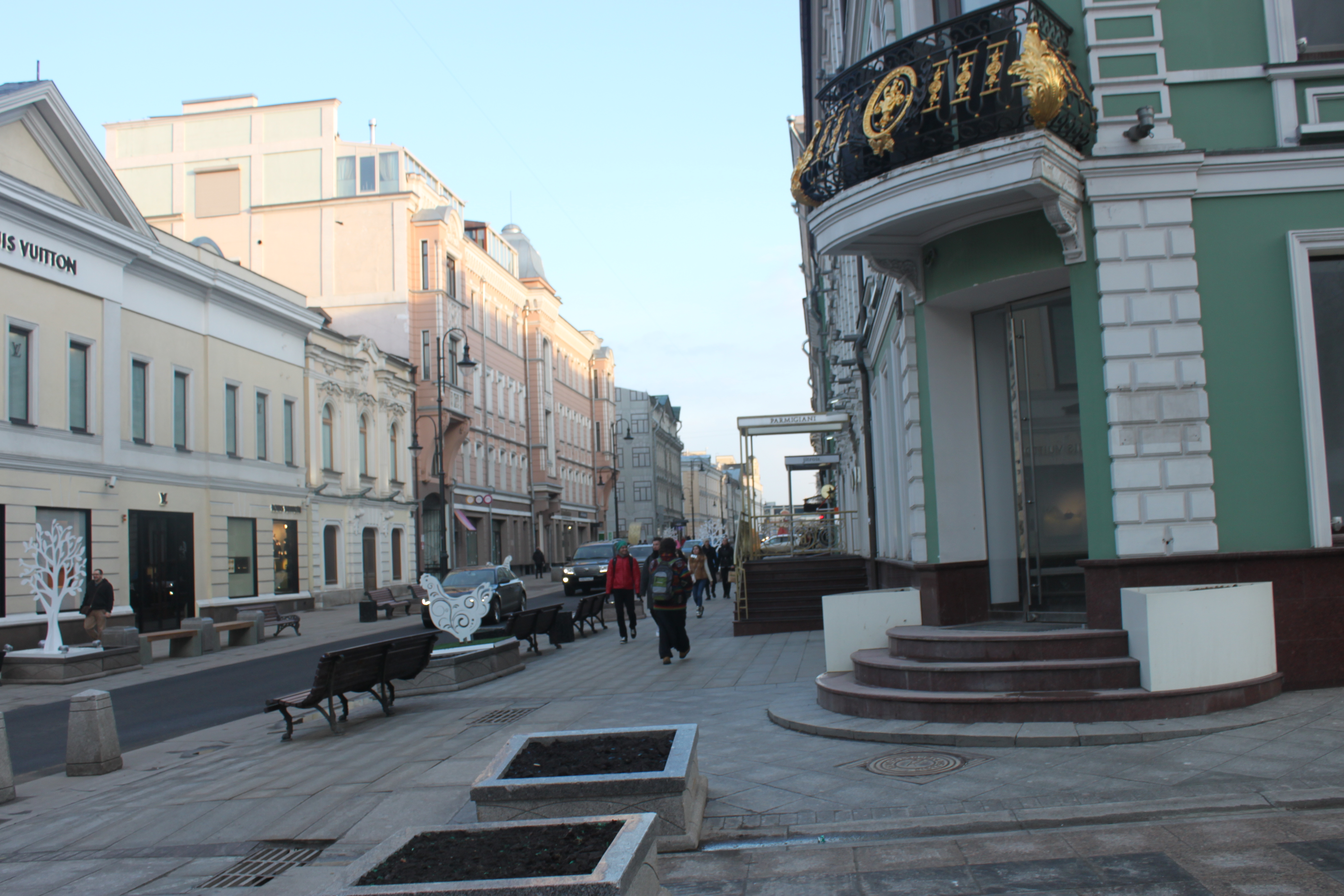 Bolshaya Dmitrovka Street (2015-04-04).